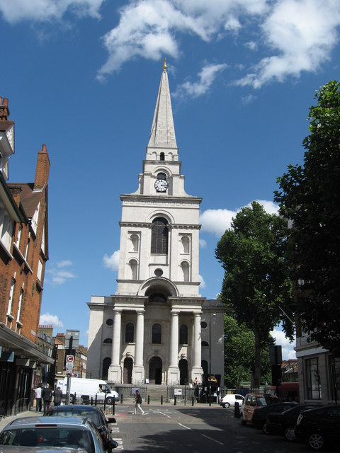 Christ Church, Spitalfields, London Christ Church, Spitalfields, is one of the Fifty New Churches, commissioned by the Act of Parliament of 1711 to be built on open sites in outlying areas of the City of London, which were experiencing rapid growth. Built on a longitudinal west-east axis, Christ Church's west front terminates the facing street with a monumental steeple, which punctuates the simple rectangular massing of the body of the church. The steeple rises directly behind a grand portico, raised by steps from the street. The portico has a Palladian or Venetian form. The architect was Nicholas Hawksmoor. It is a Grade 1 listed building.